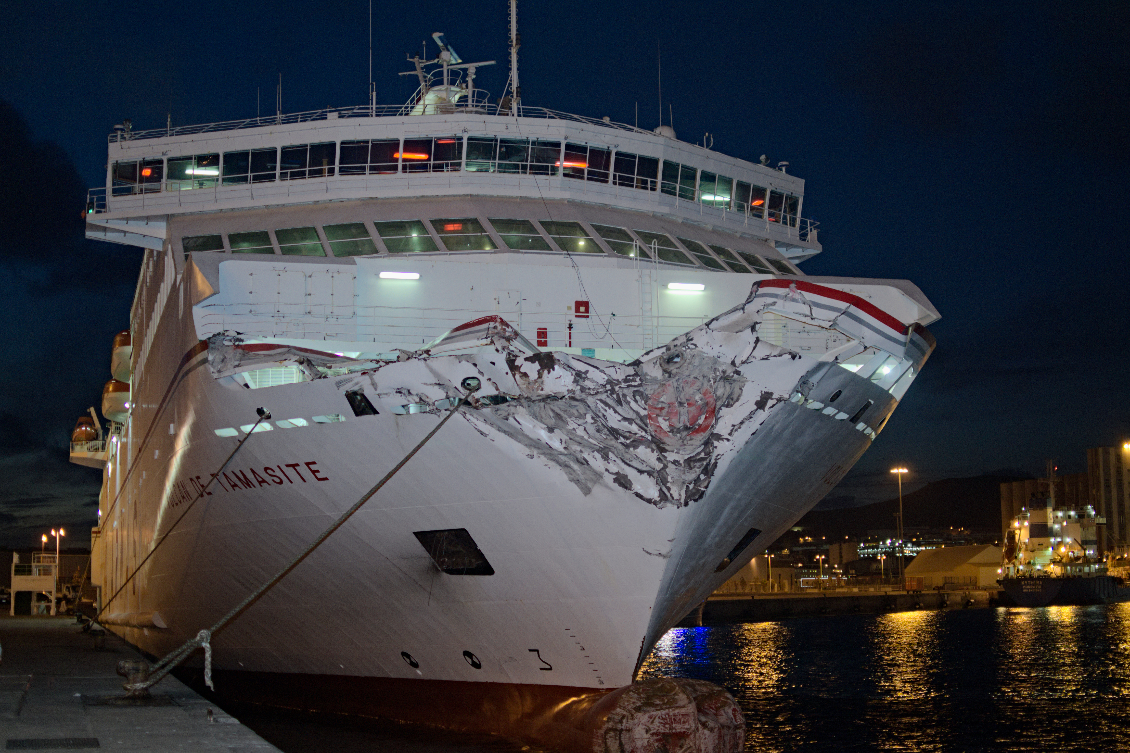 Volcán de Tamasite (launched in 2014) being repaired in the Cambullonero dock of the [:en:Port of Las Palmas|Port of Las Palmas (Canary Islands, Spain), after the collision against the back of the dock of La Esfinge happened the 21, April of 2017.